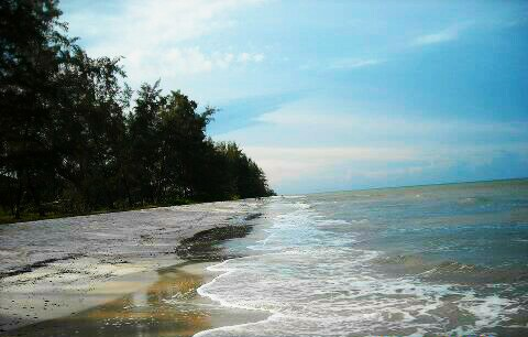 A modified version of Pantai Ketapang, the author has provide his permission here